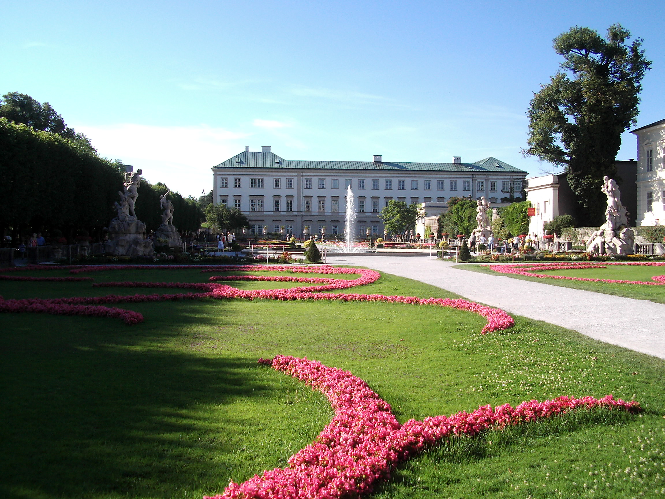 Austria, Salzburg, Mirabell Palace